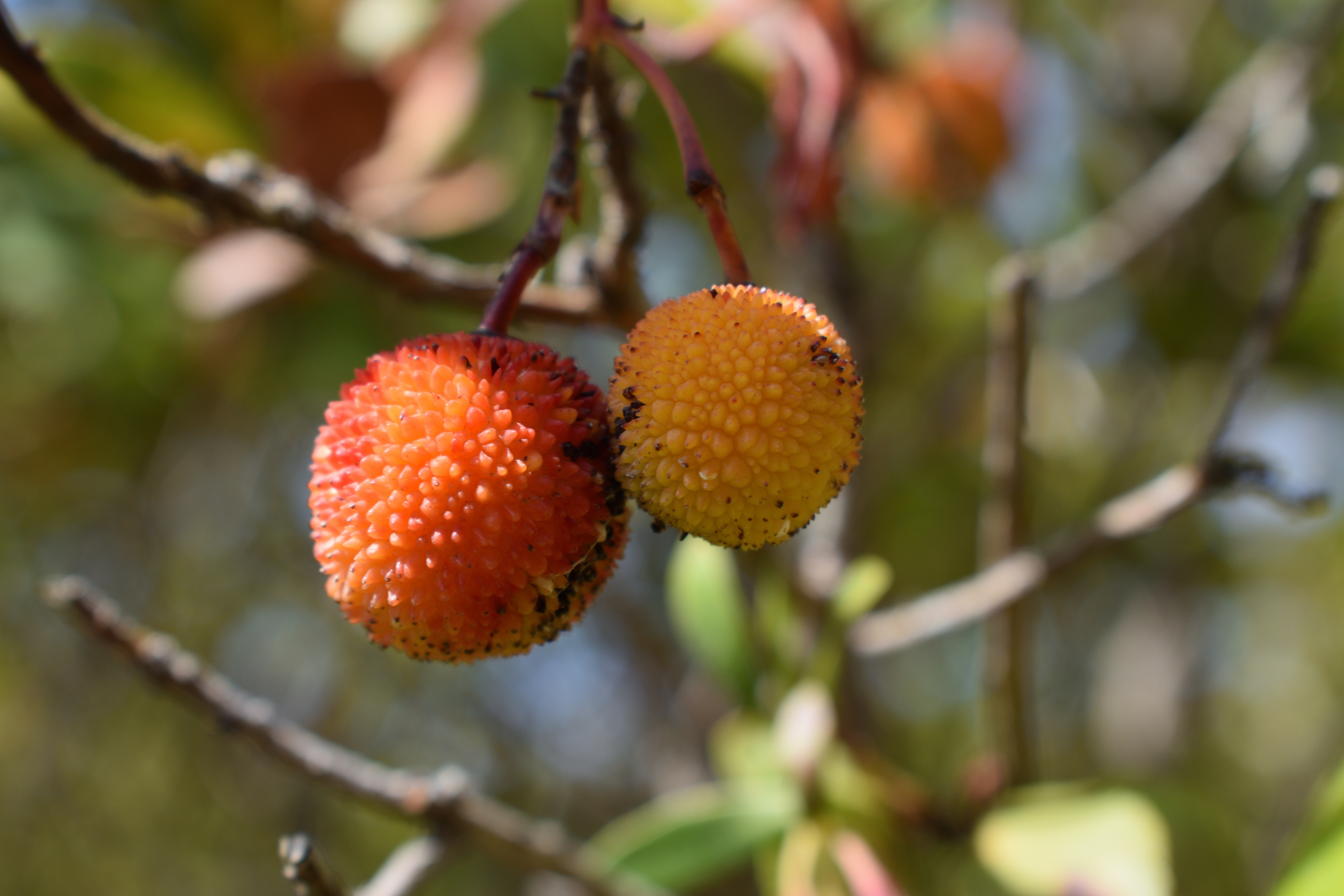 Strawberry tree fruits, near Barragem de Odeáxere, Lagos - Algarve, Southern Portugal.